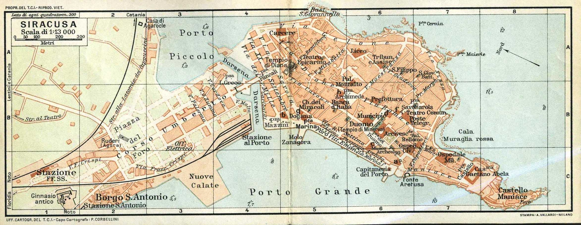 Map of Siracuse